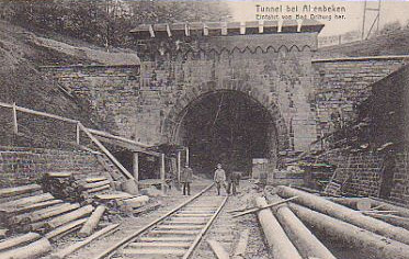 Rehbergtunnel trough the Egge in Altenbeken, NRW, Germany, 1909 (here: Exit at the east side)